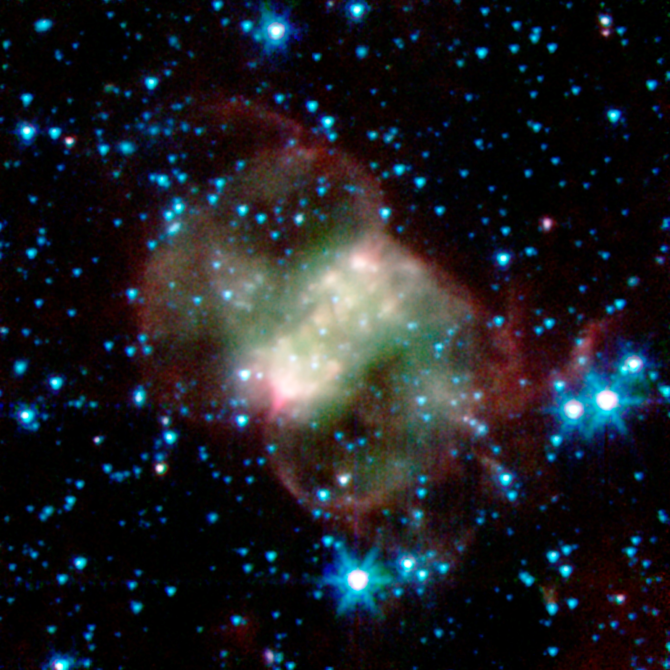 This planetary nebula, known as NGC 650 or the Little Dumbbell, is about 2,500 light-years from Earth in the Perseus constellation. Unlike the other spherical nebulas, it has a bipolar or butterfly shape due to a "waist," or disk, of thick material, running from lower left to upper right. Fast winds blow material away from the star, above and below this dusty disk. The ghoulish green and red clouds are from glowing hydrogen molecules, with the green area being hotter than the red. In this image, infrared light at wavelengths of 3.6 microns is rendered in blue, 4.5 microns in green, and 8.0 microns in red.